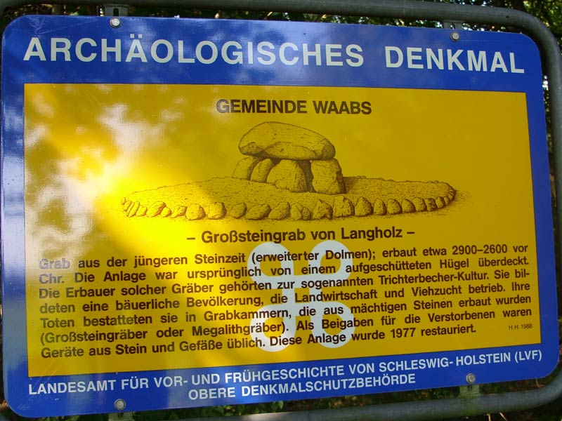 Burial Chamber (Dolmen)